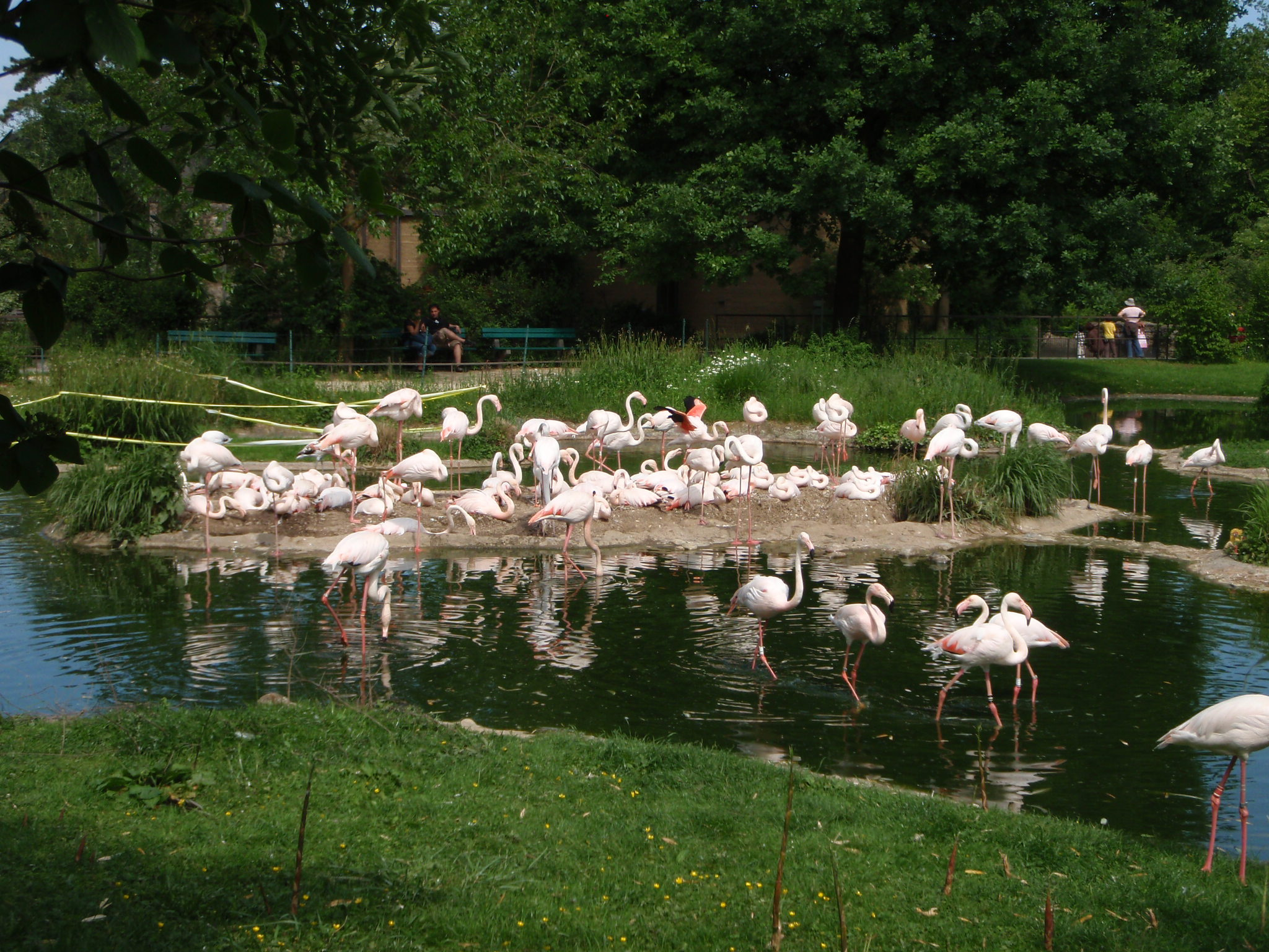 Zoo Baselbreeding flamingos